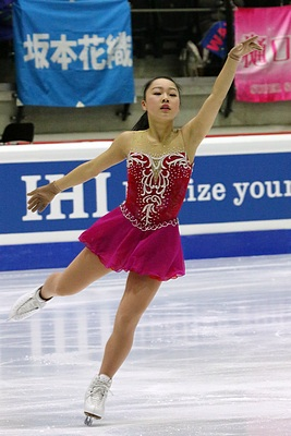 Junior World Championships 2015 (Wakaba HIGUCHI JPN – Bronze Medal)